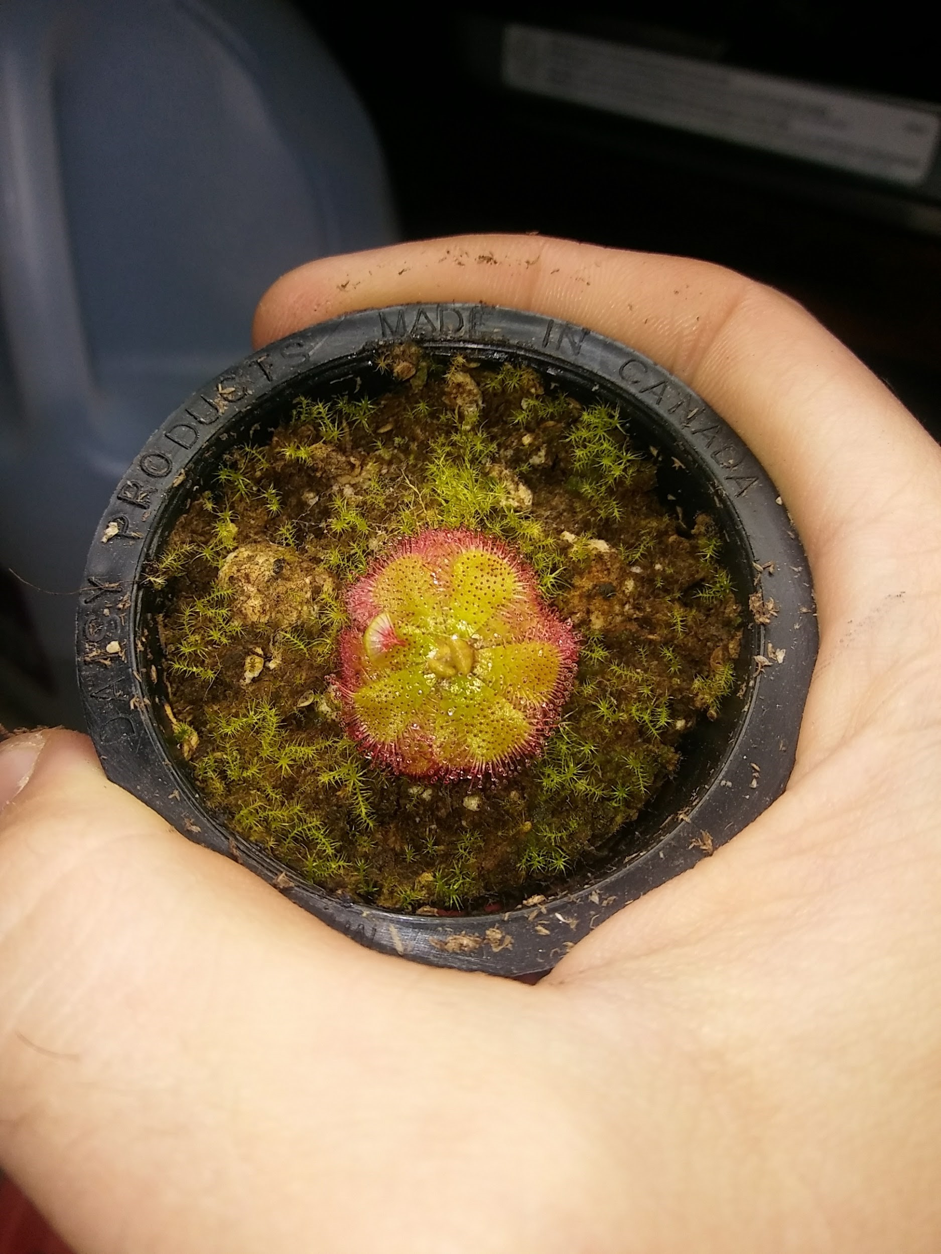 Holding a small D. admirabilis in a net pot full of peat moss. Note the red tinted trichomes